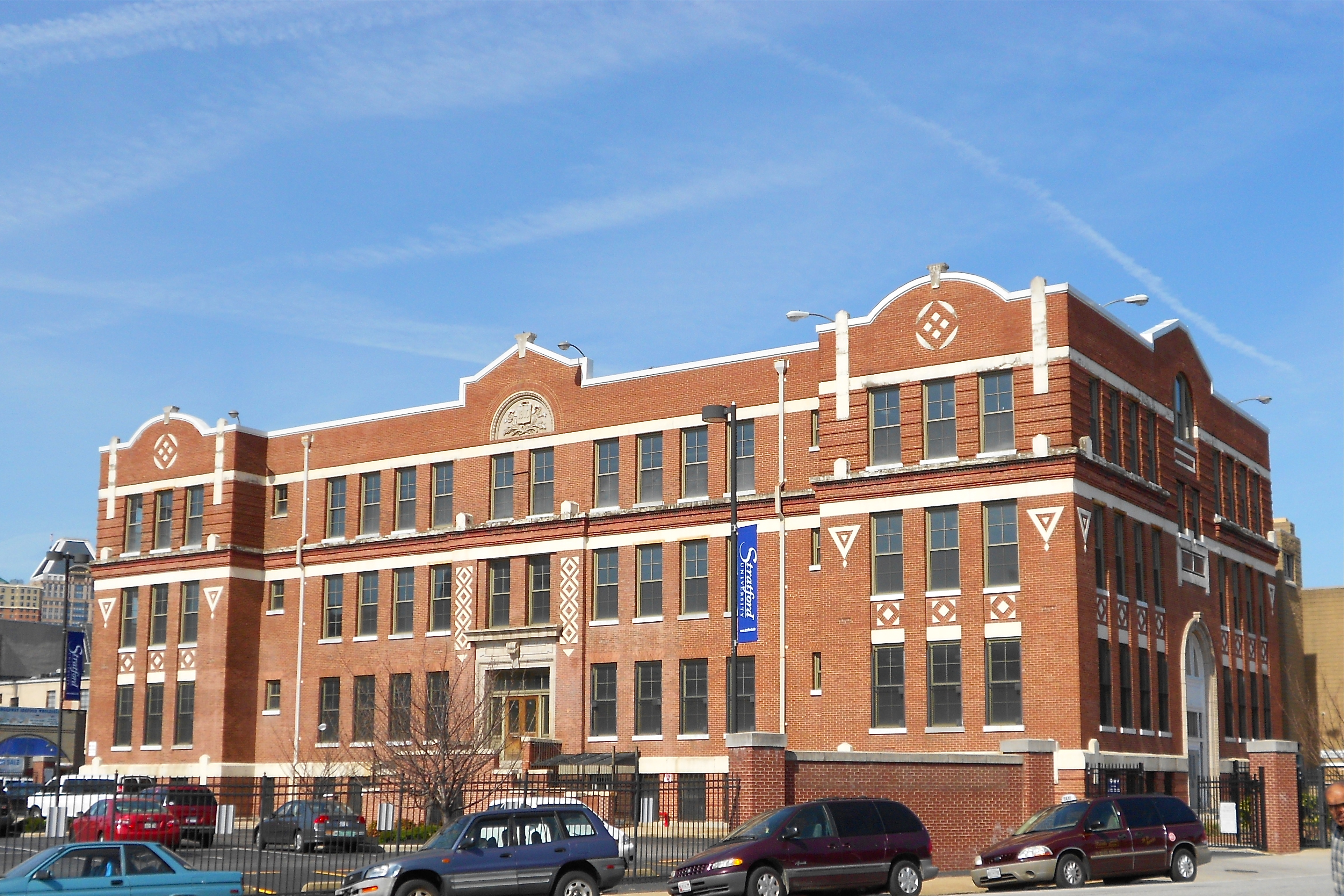 A building of Stratford University in Baltimore, Maryland